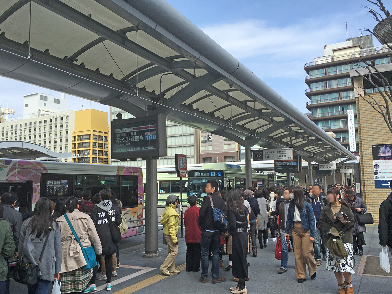 Kyoto Station's bus terminal